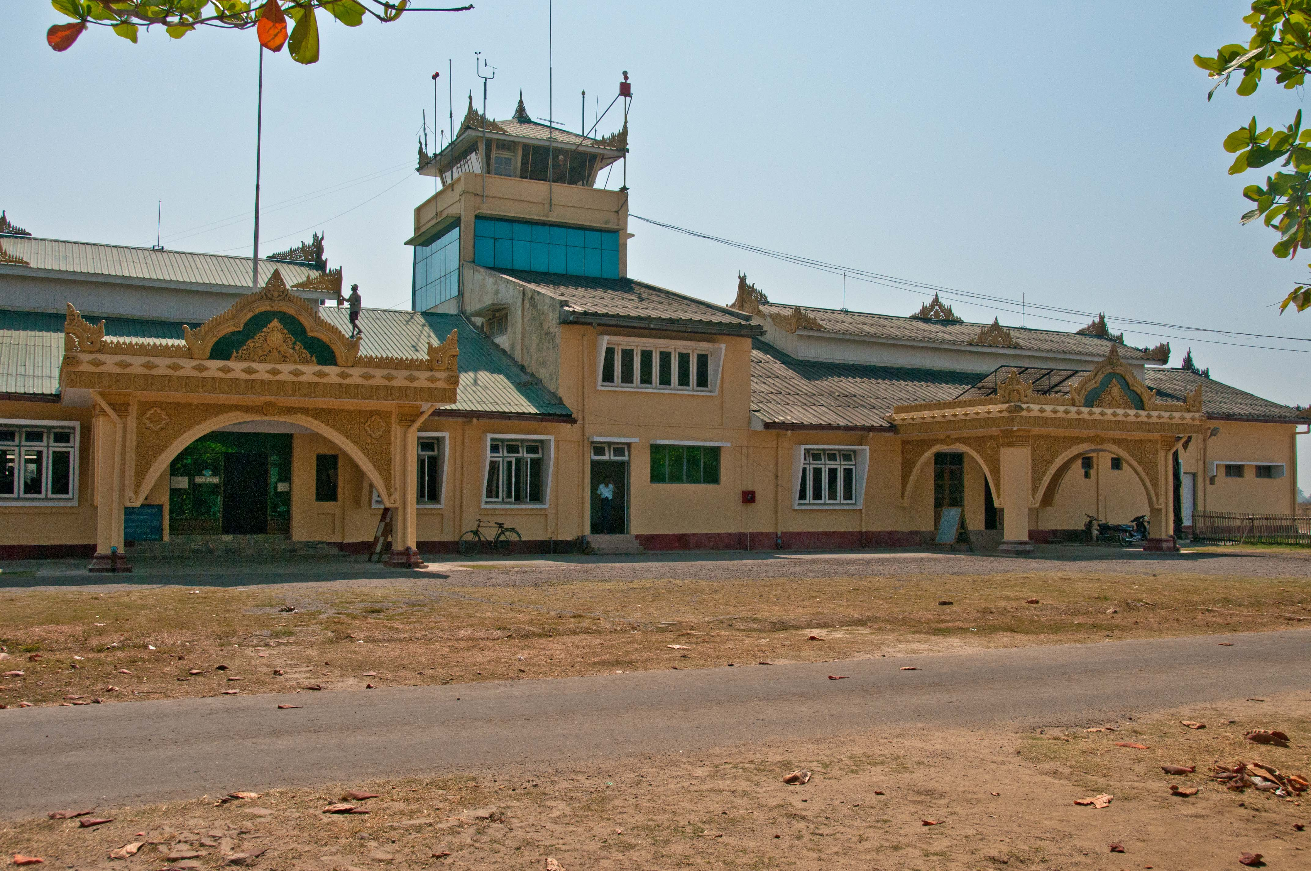 Buildings of the airport in Sittwe, Myanmar